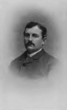 Image of Michele Del Monte